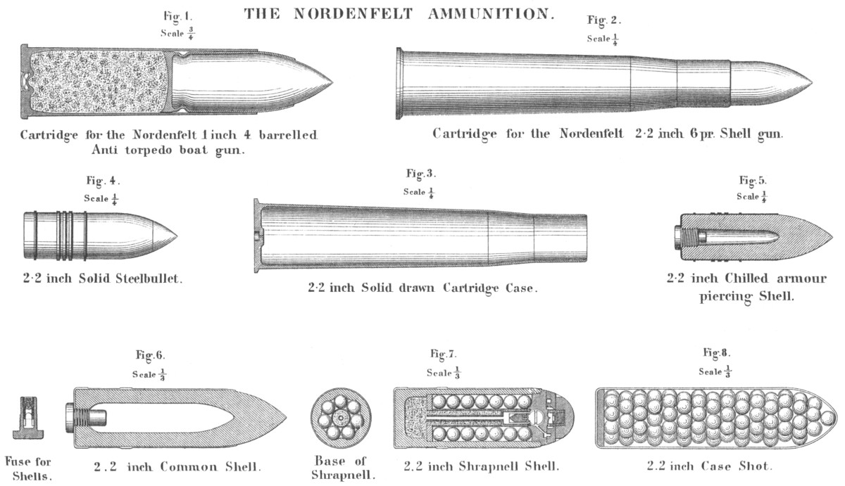 Diagrams of ammunition for Nordenfelt 1-inch and 6-pounder (57-mm or 2.2 inch) guns of the 1880s and 1890s.